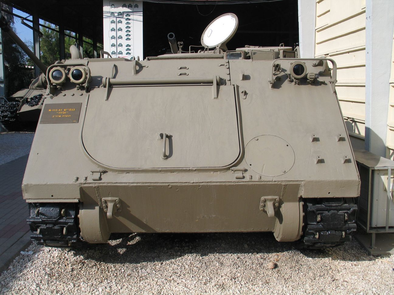 Description: M113A1 APC in Batey ha-Osef museum, Tel Aviv, Israel. 2005. Source: Photo by me, User:Bukvoed.